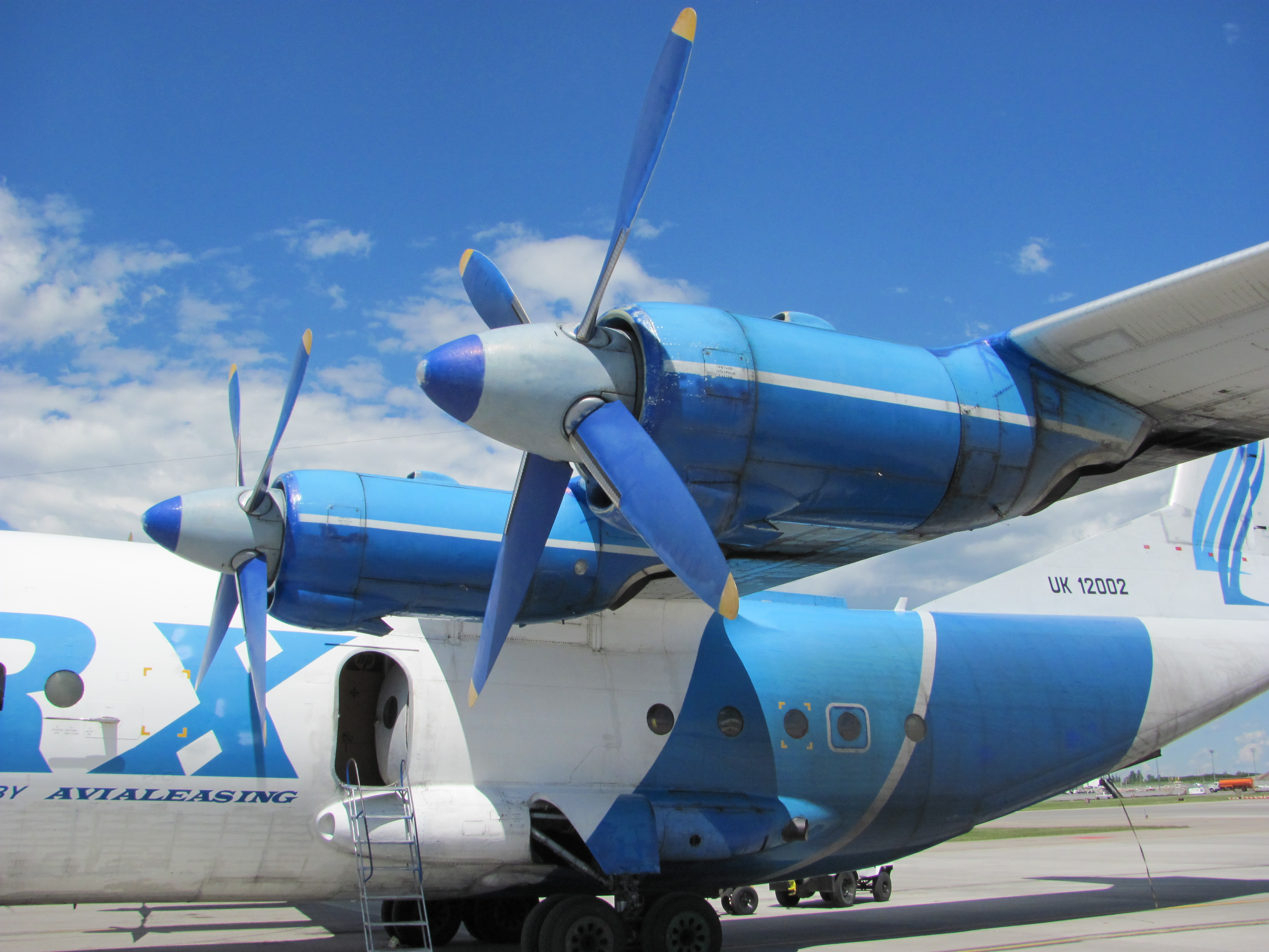 Avialeasing Antonov An-12 (UK-12002) at Calgary International Airport